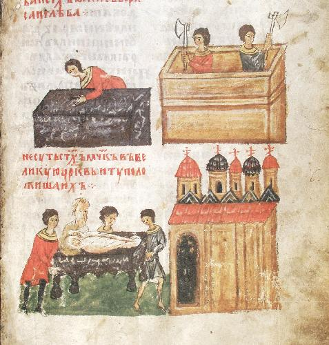 Procession with relics of Boris and Gleb